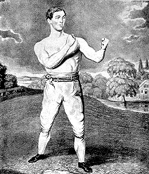 Print of James Burke (boxer) (1809–1845). Antique Aqua Tint Book Plate Published J. McGowan in London, circa 1830.